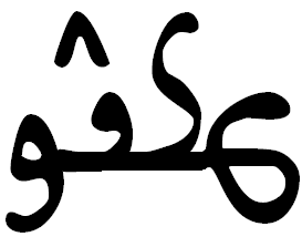 "Mazdak" in Middle Persian script.